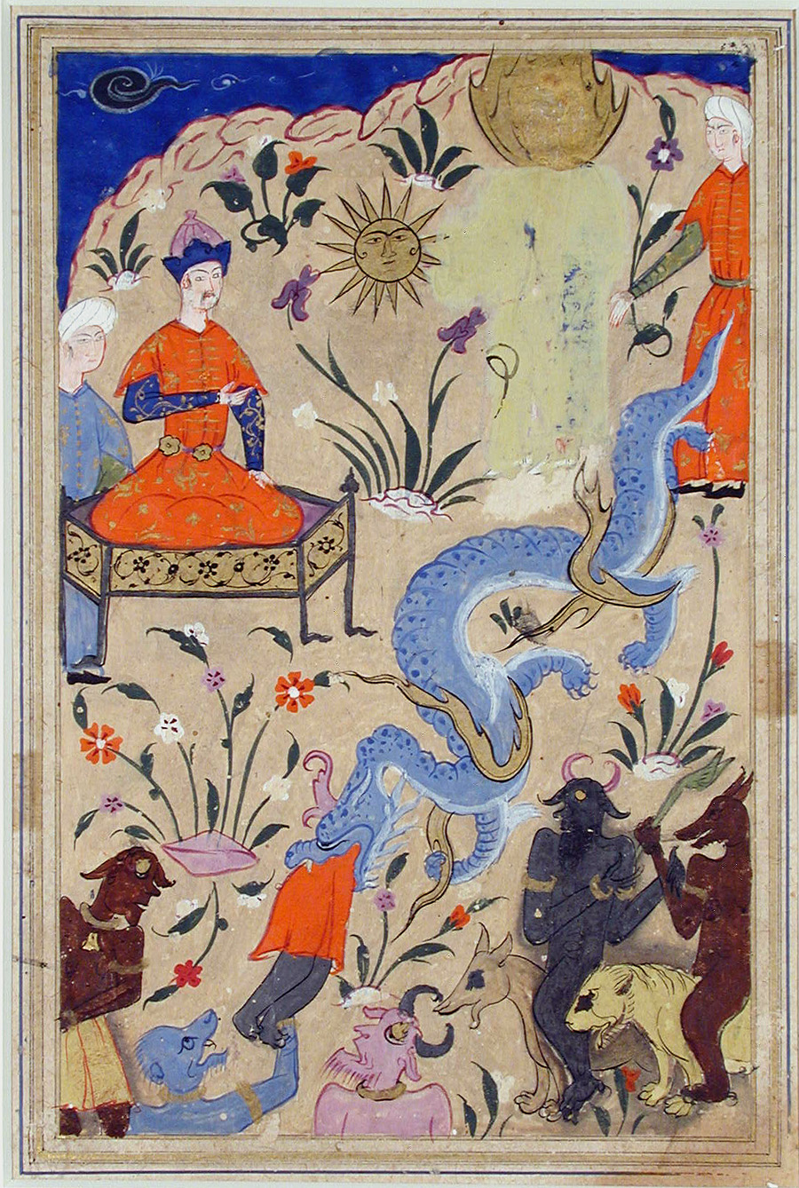 Series Title: History of the Prophets Suite Name: Qisas al-Anbiya Creation Date: ca. 1540 Display Dimensions: 7 13/32 in. x 4 11/16 in. (18.8 cm x 11.9 cm) Credit Line: Edwin Binney 3rd Collection Accession Number: 1990.259 Collection: The San Diego Museum of Art